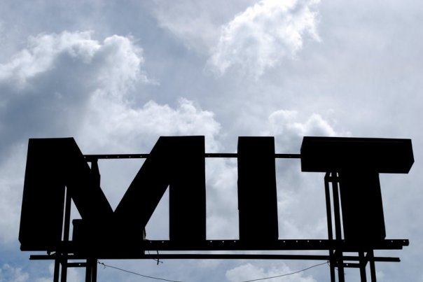 MIT hoarding